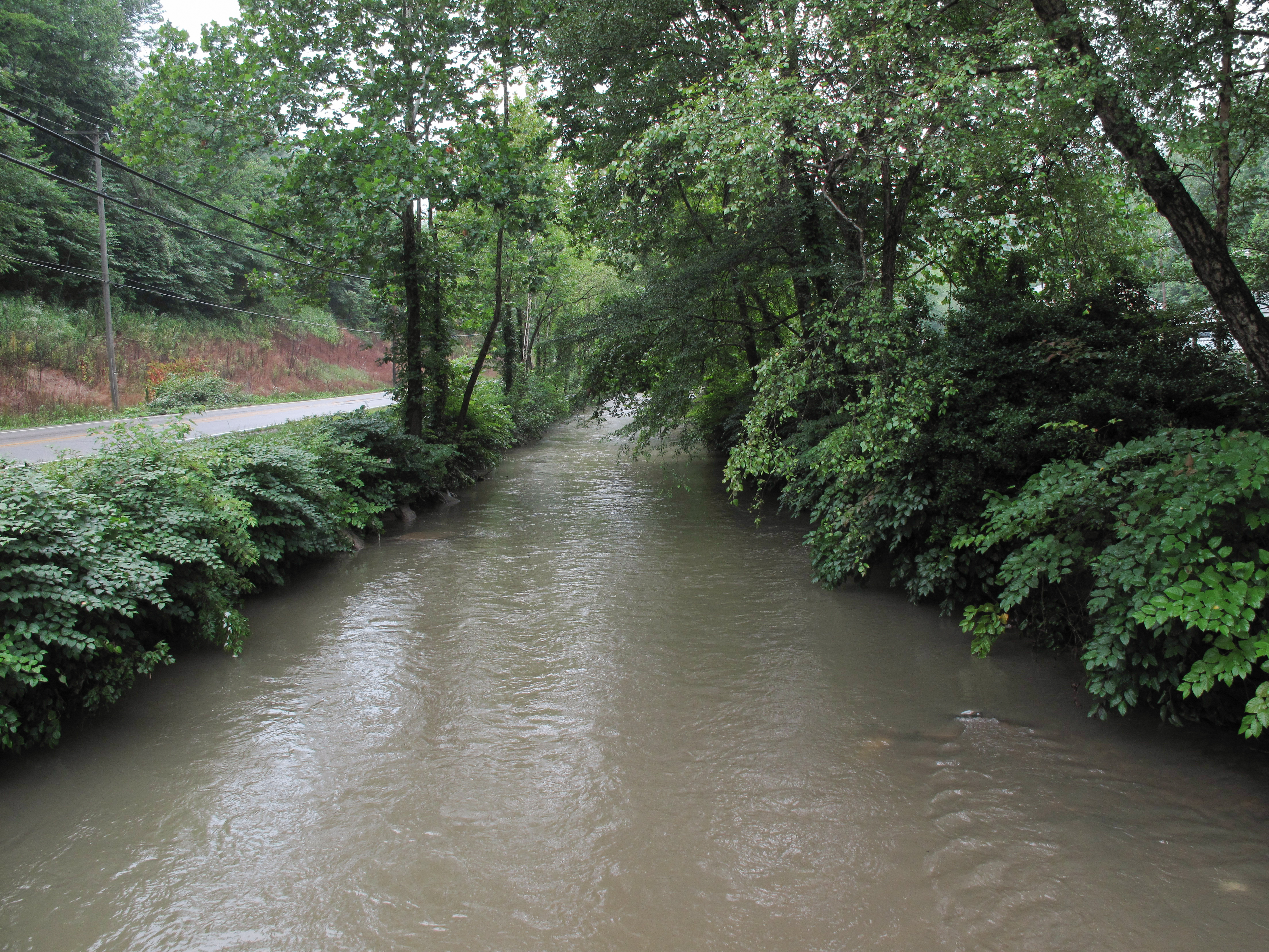 Cabin Creek near Ronda, West Virginia, as viewed upstream from Ronda Road (County Road 79/4).